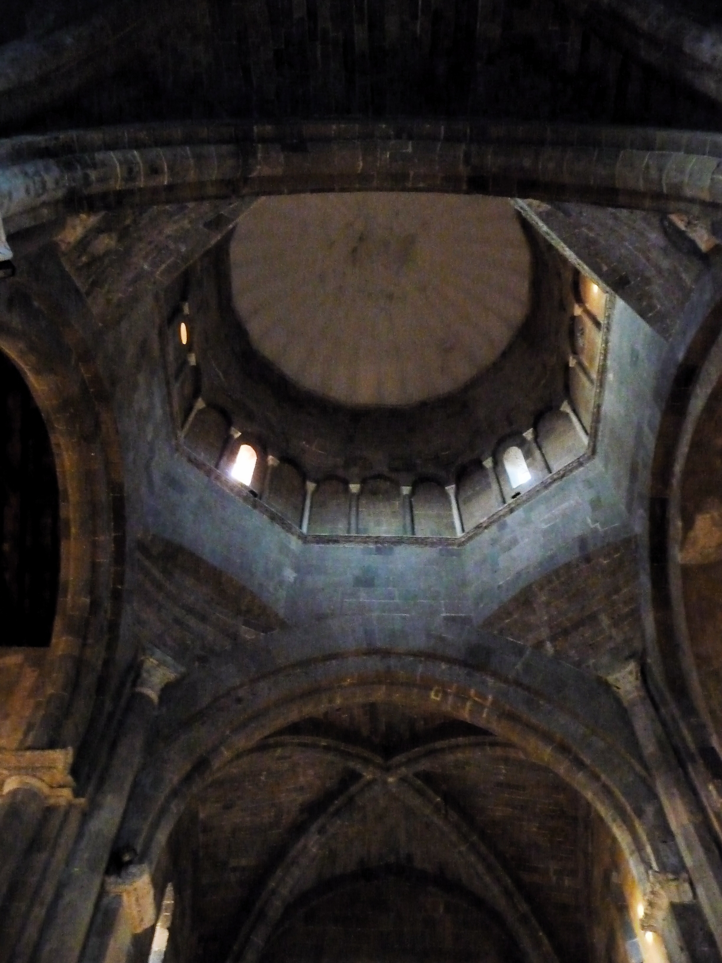 Cathedral of San Michele Arcangelo in Casertavecchia, province of Caserta.